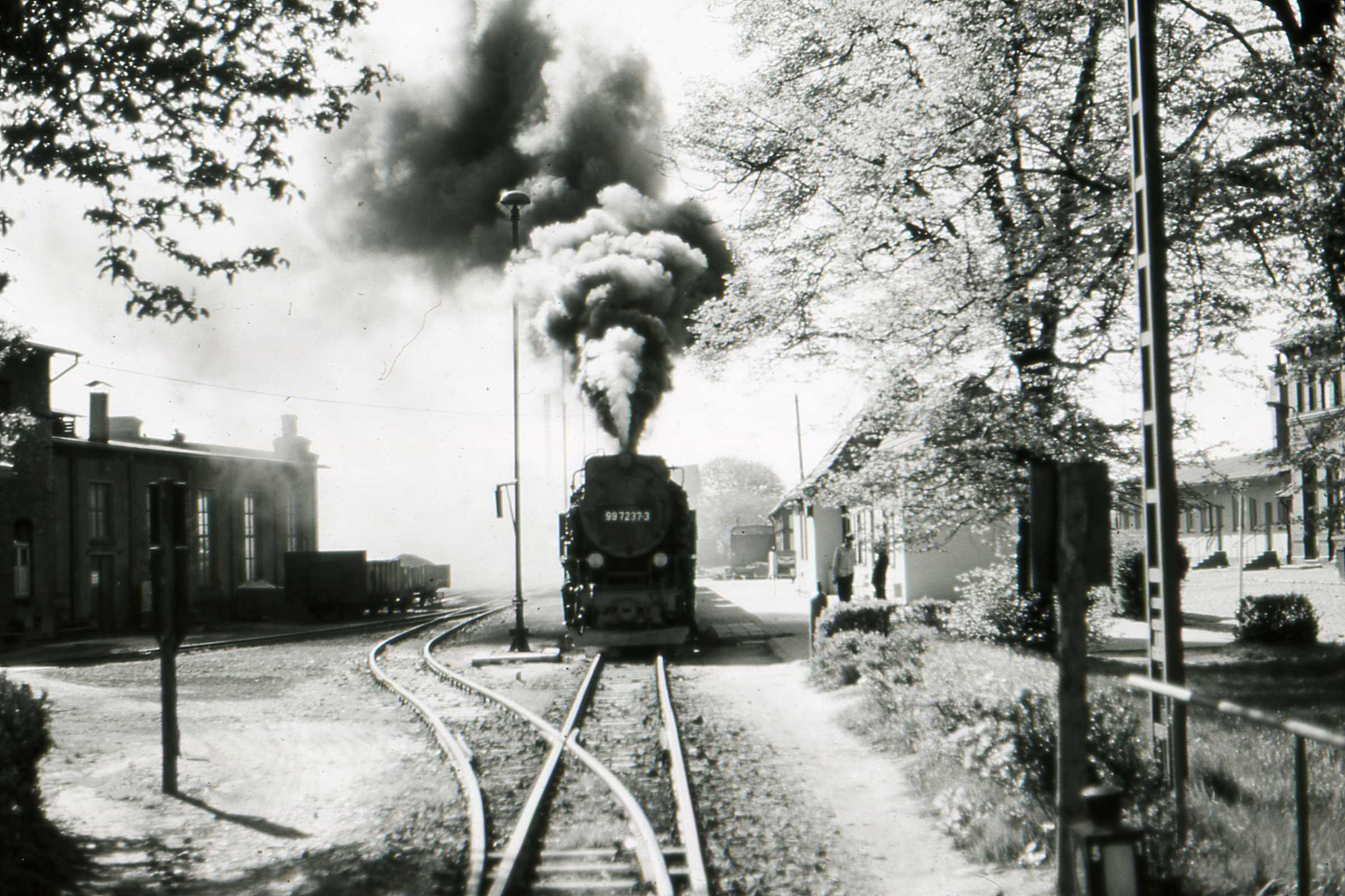 Taken on ORWO UP15 (ASA15 ) black and white slide film. Steam trains from Gernrode travelled to Alexisbad and Stiege. 99 7237-3 awaits departure.